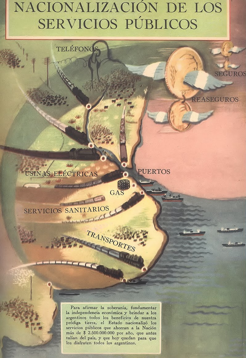 Propaganda poster for Peron's first five-year plan (in effect between 1946-1951).